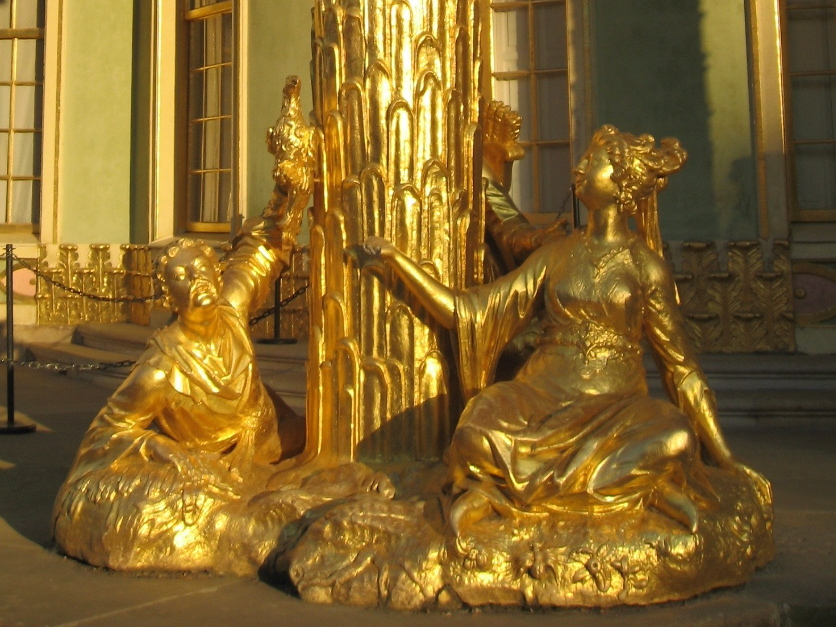 So-called "Chinese House" in the Park of Sanssouci, which served as a teahouse.